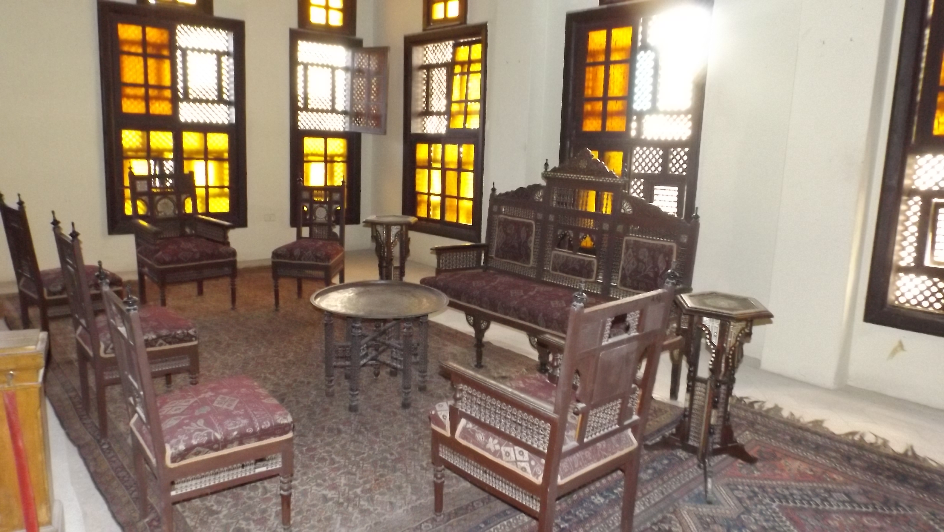 Rosetta museum